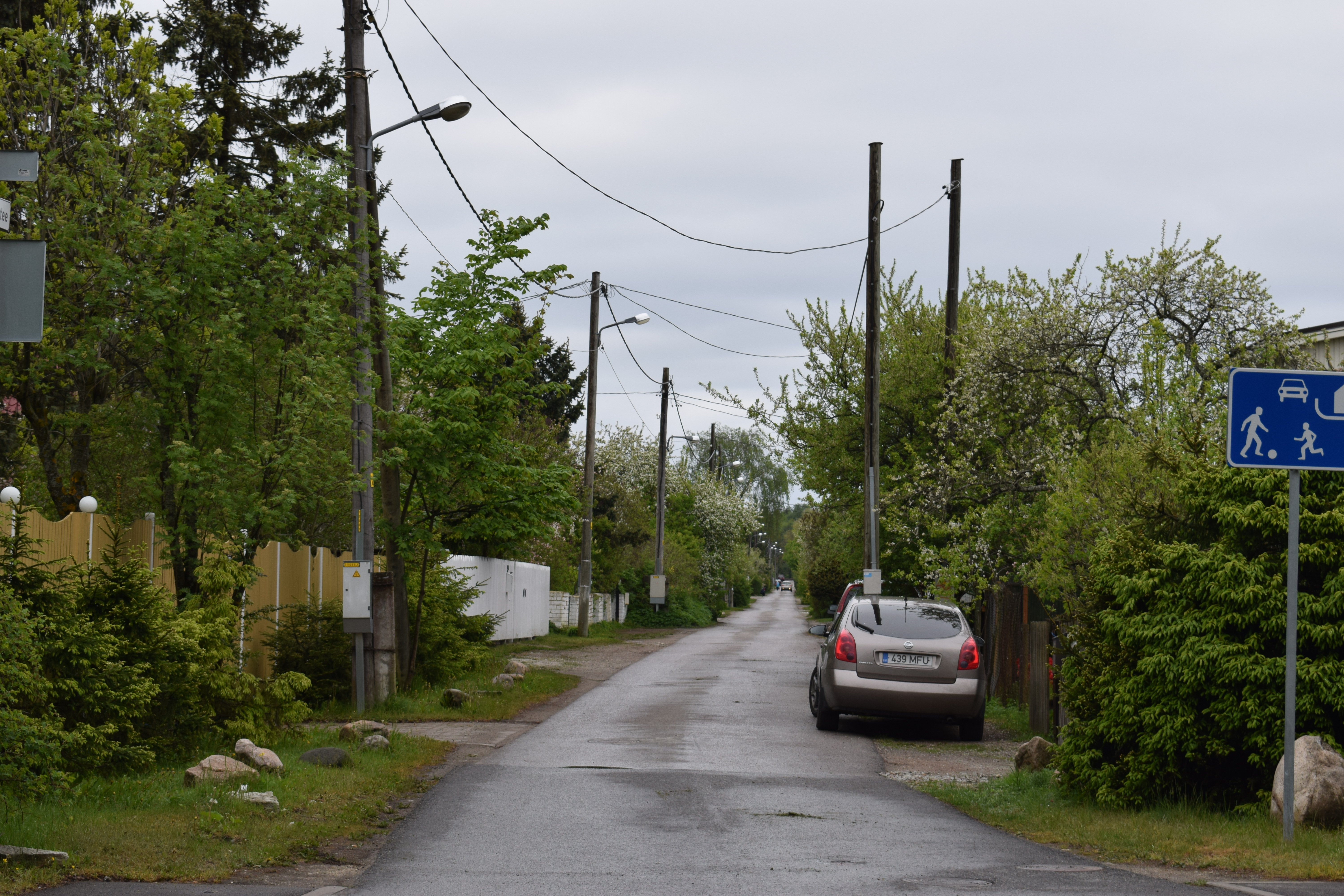 Jasmiini tee